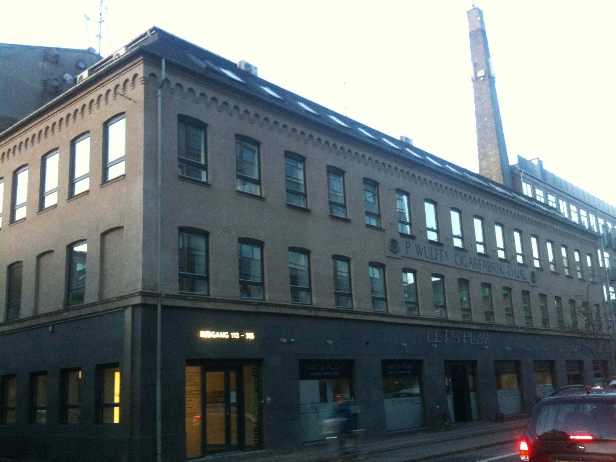 Building that housed P. Wulffs Cigarfabrik - Nordre Fasanvej 111-115 - Frederiksberg in 2015Dansk: Bygningen hvor P. Wulffs Cigarfabrik lå - Nordre Fasanvej 111-115 - Frederiksberg in 2015